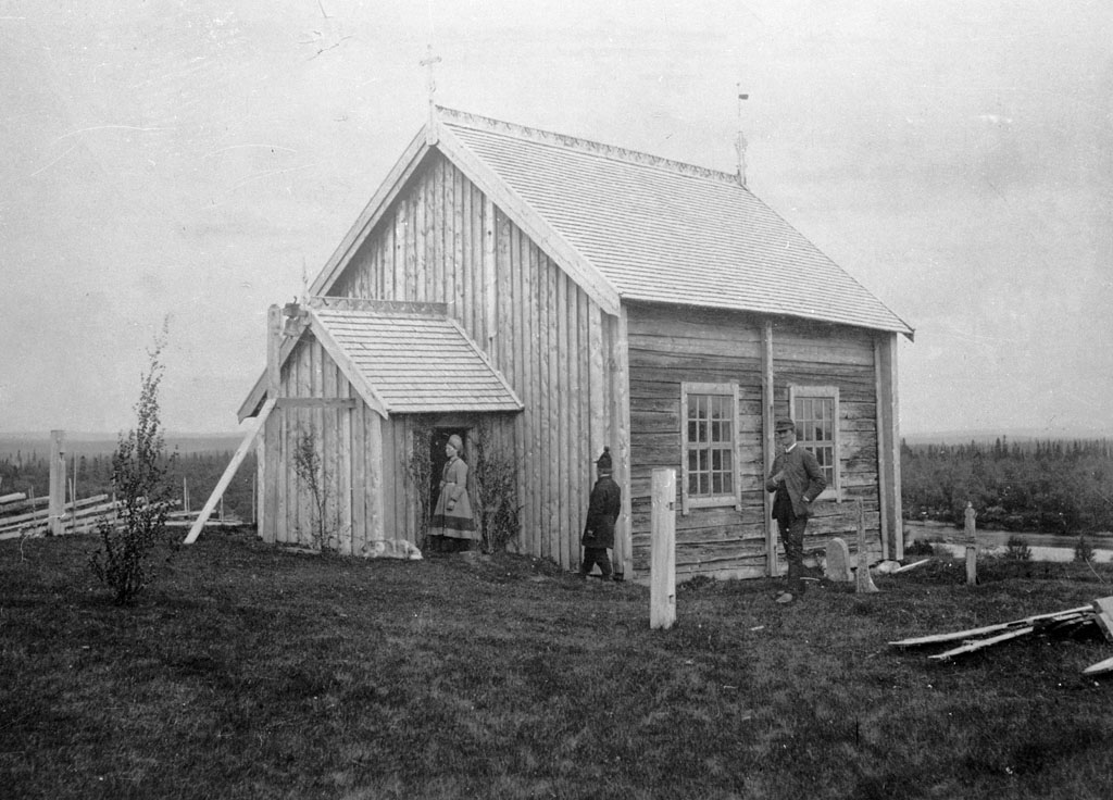 People outside Handöl Sami Chapel. The chapel was built for the Sami people who lived in the mountains near the Norwegian border. It was inaugurated in 1804. Parish (socken): Åre Province (landskap): Jämtland Municipality (kommun): Åre County (län): Jämtland Photograph by: Axel Lindahl Date: c. 1900 Format: Duplicate